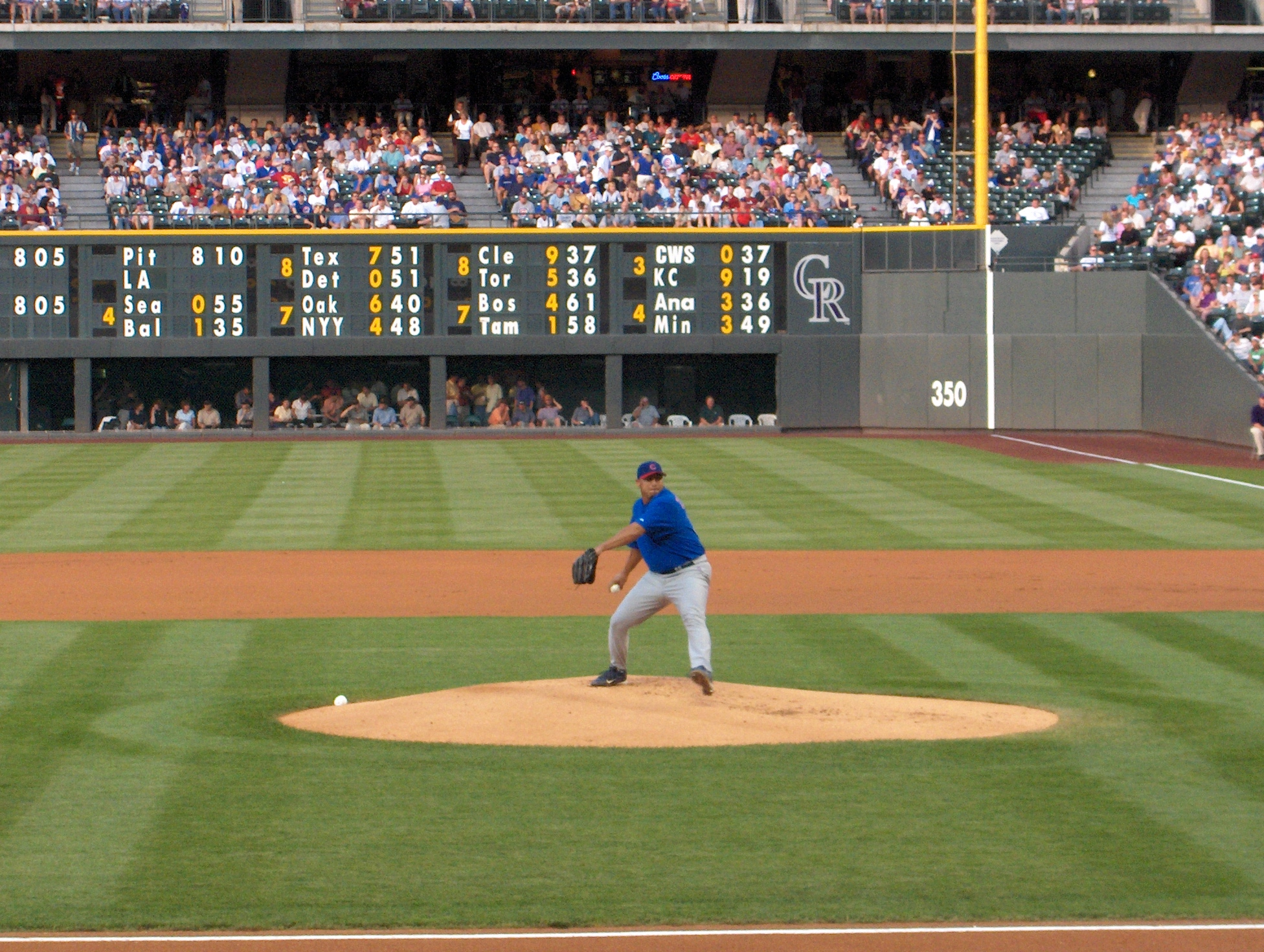 Carlos Zambrano in Denver's Coors Field 07:19, 8 June 2006 . . Eamuscatuli . . 1952×1472 (1,390,152 bytes)